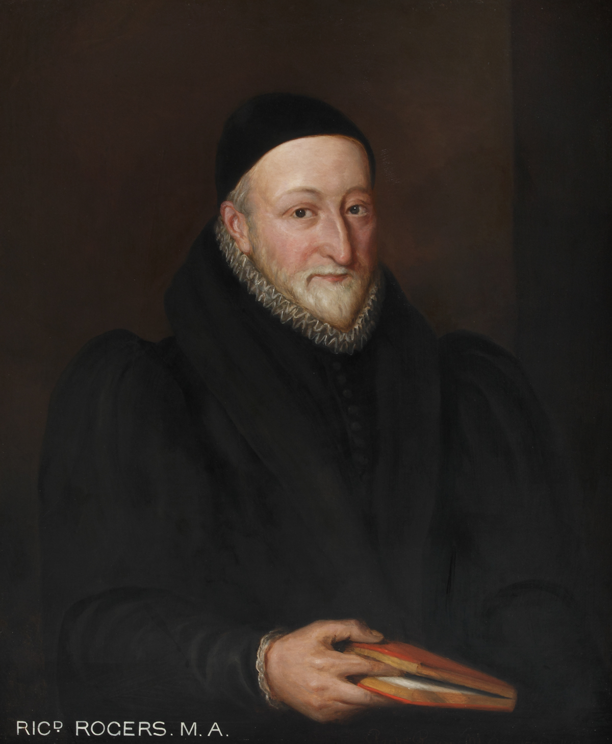 Depicted person: Richard Rogers (theologian)